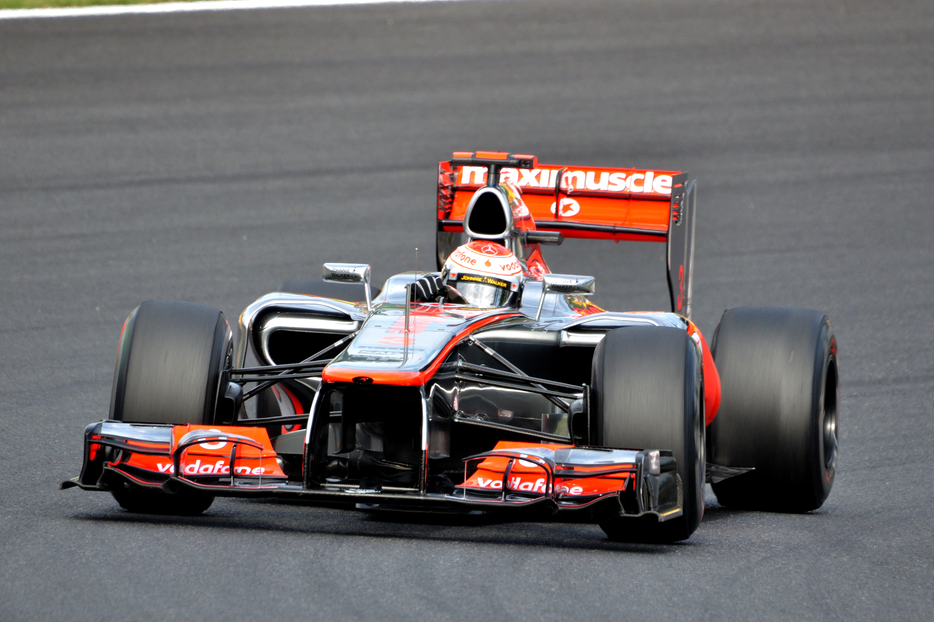 Jenson Button guides his Vodafone McLaren Mercedes round the hairpin of the Suzuka Circuit during a qualifying session for the 2012 Formula 1 Japanese Grand Prix.